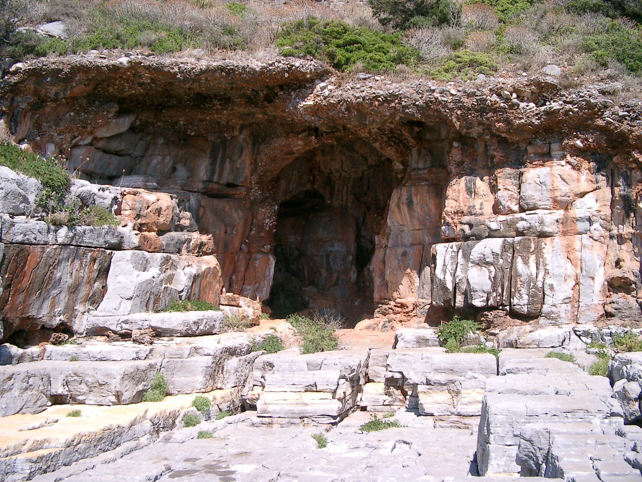 Entrance of the Katafygi Cave, Greece